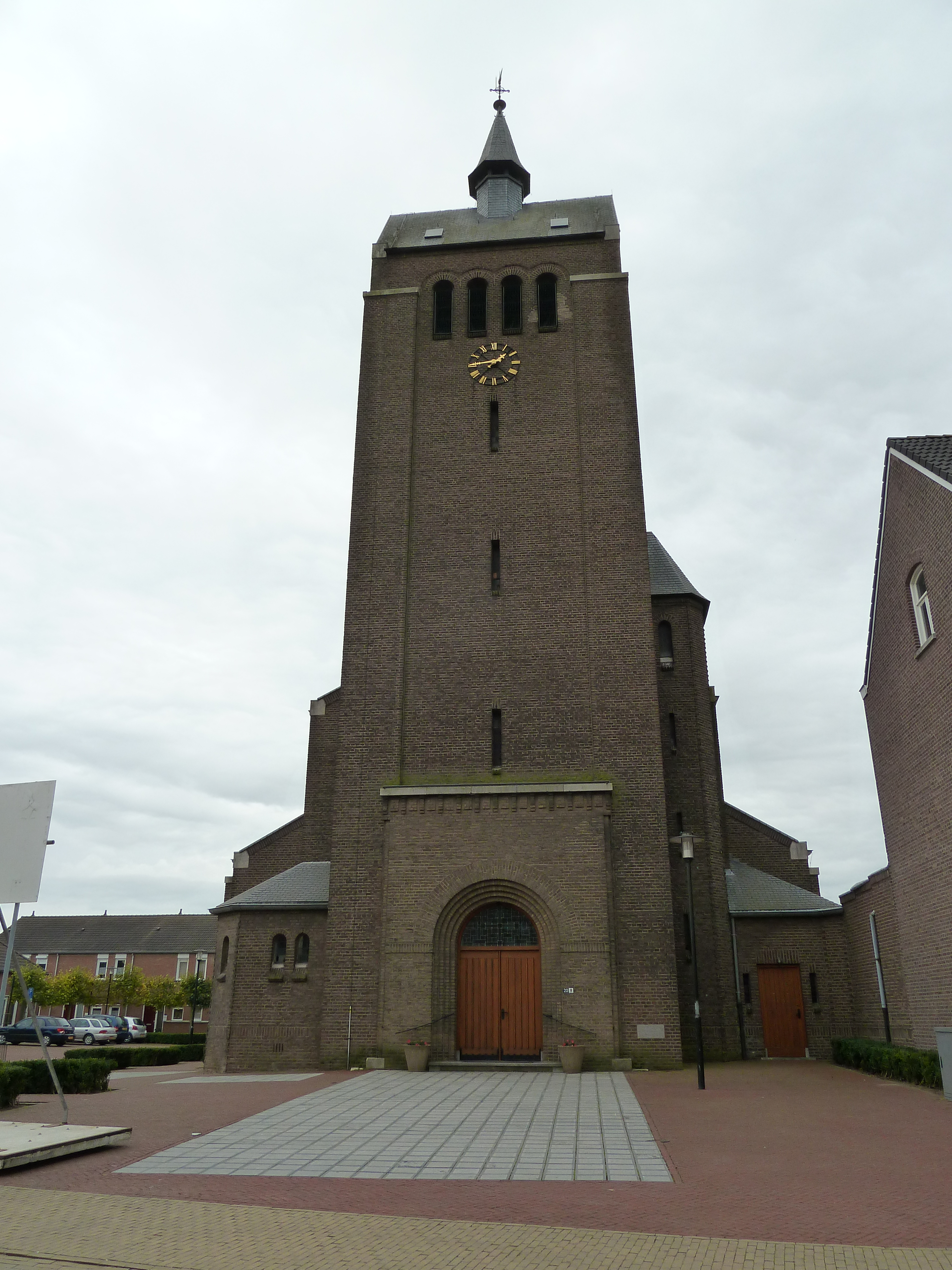 Church of Oost-Maarland, Limburg, the Netherlands